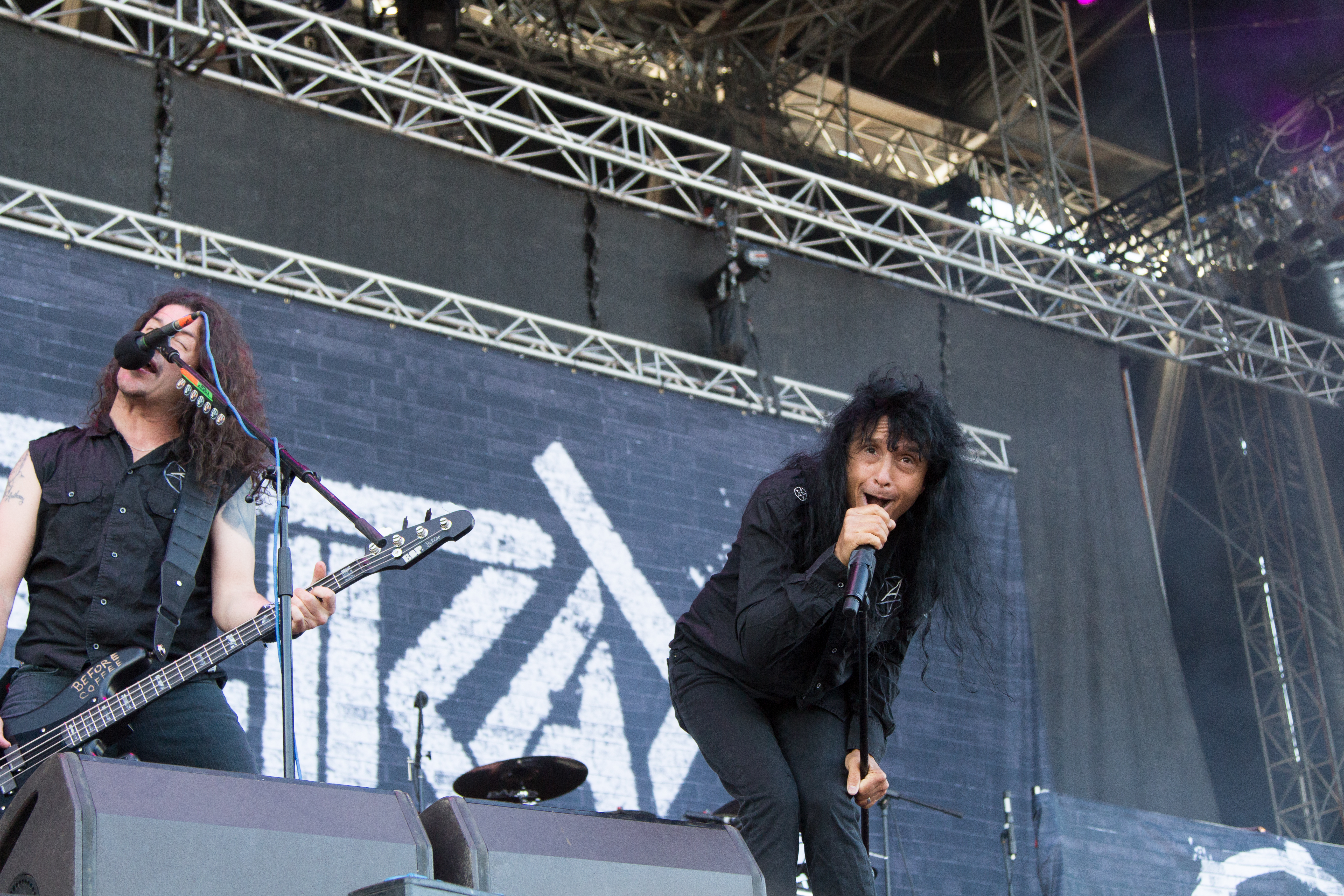 Joey Belladonna from Anthrax at Nova Rock 2014